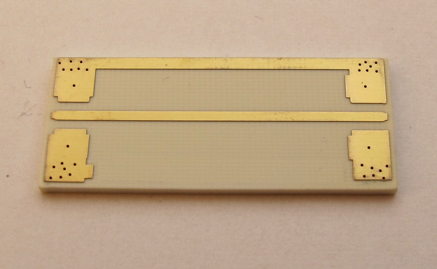 High frequency printed circuit board (PCB) with a microstrip line based on white teflon laminate ("Rogers")